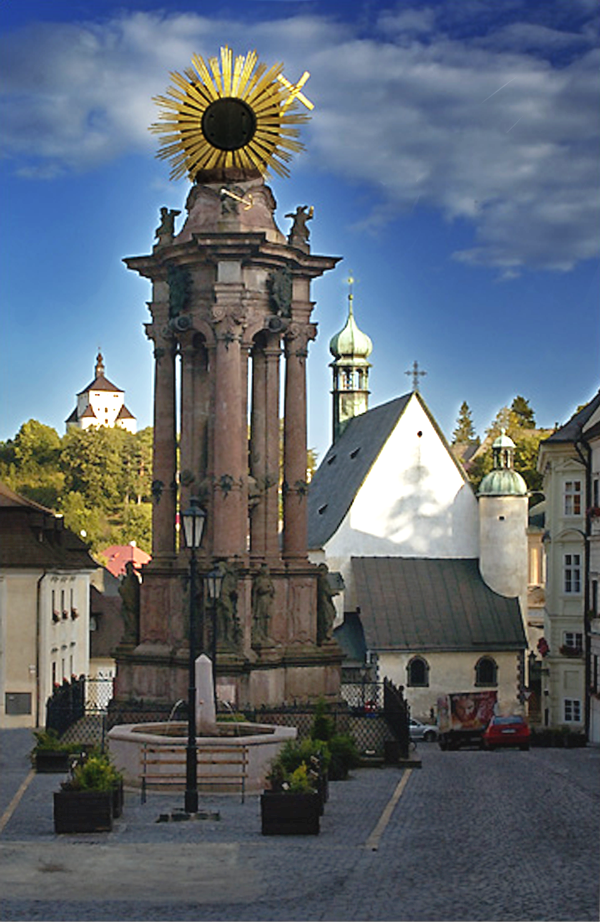 Holy Trinity Square, Banská Štiavnica, Slovakia